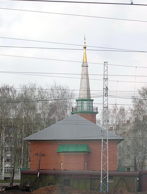 View from the window of a train passing through Pokhvistnevo in Samara Oblast